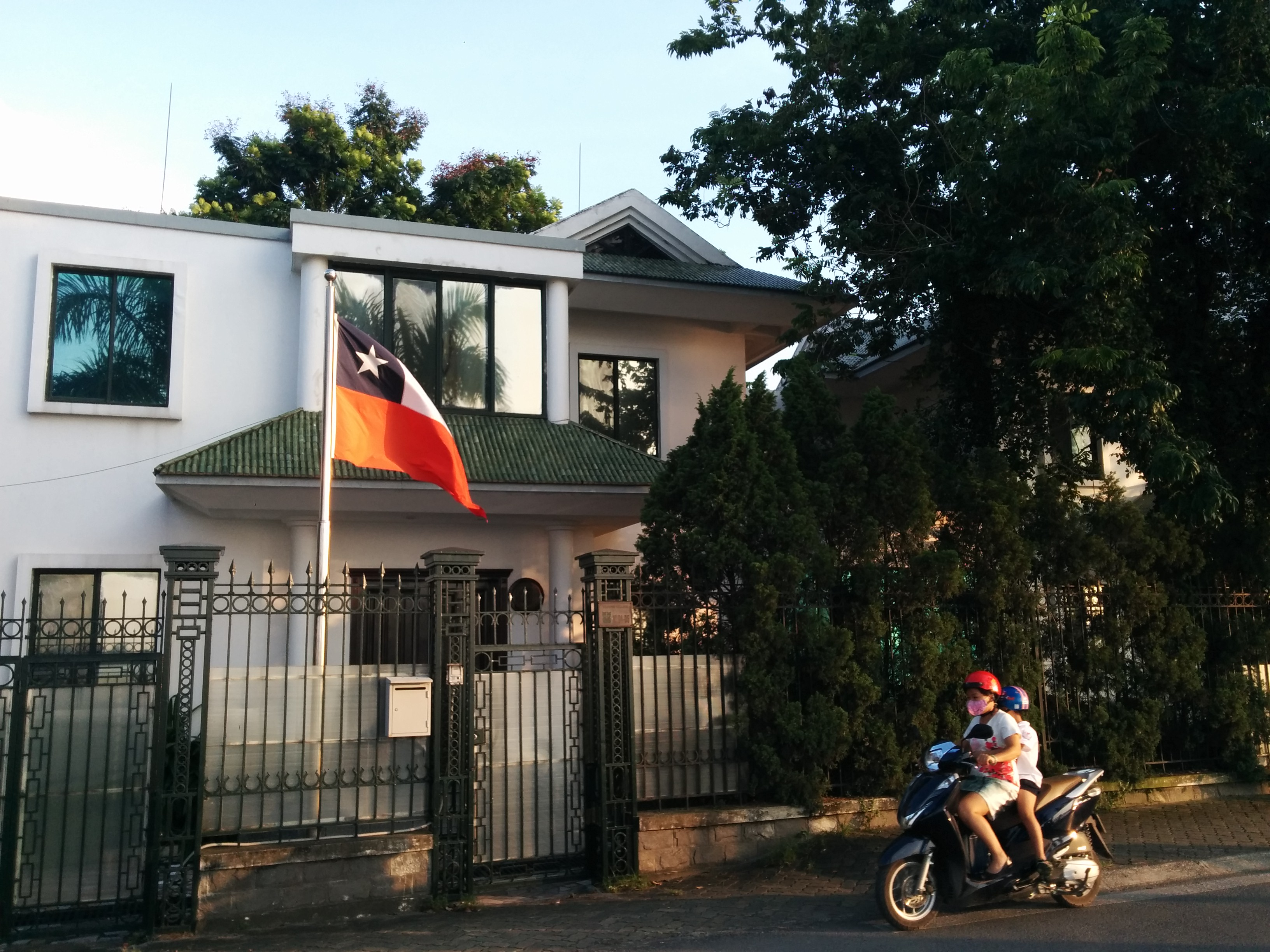 West Lake, Hanoi